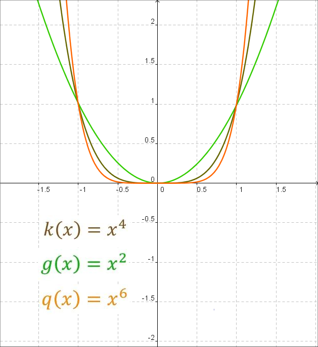 Power function graph degree 2 4 6